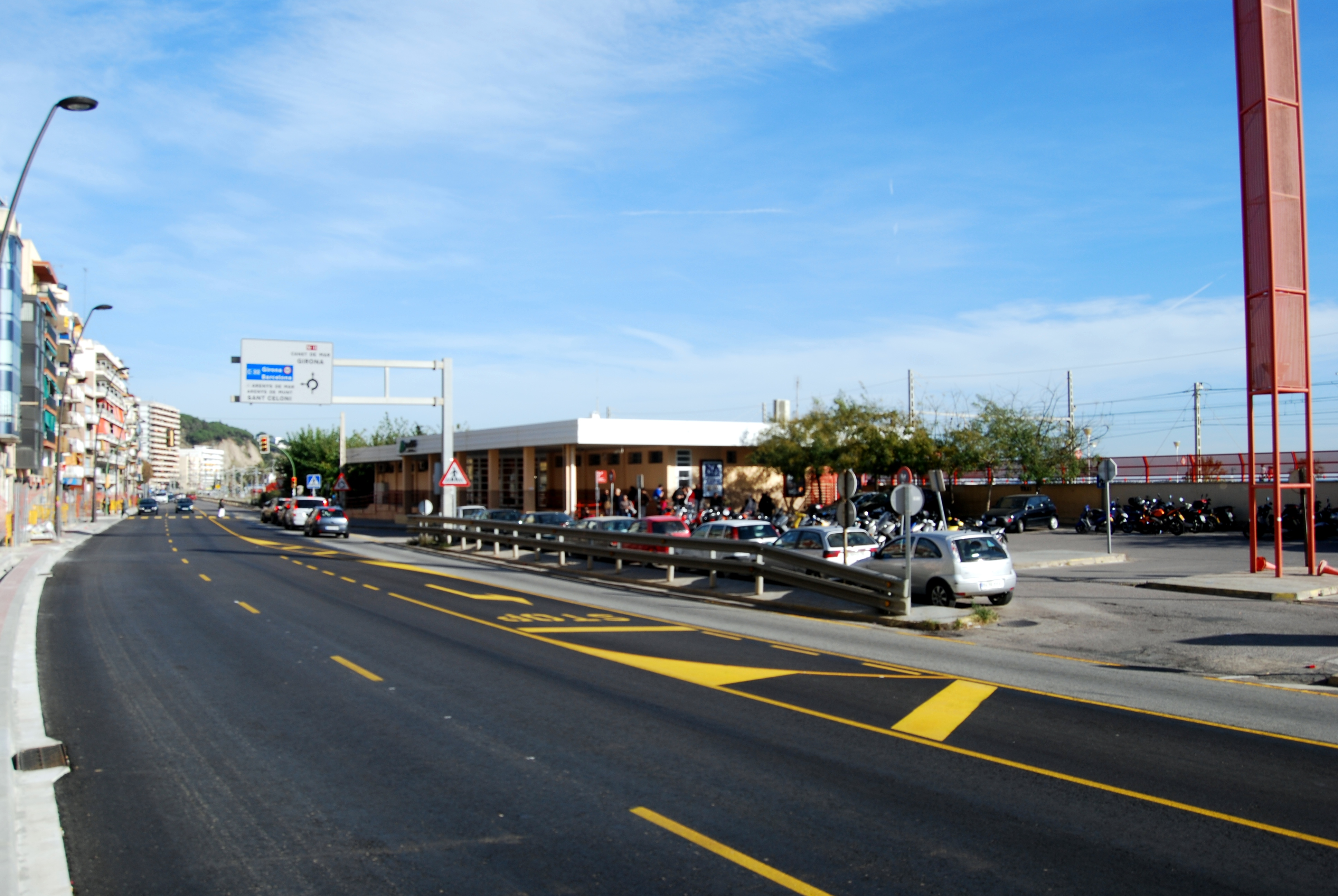 Arenys de Mar, El Maresme, (Catalunya) train station.